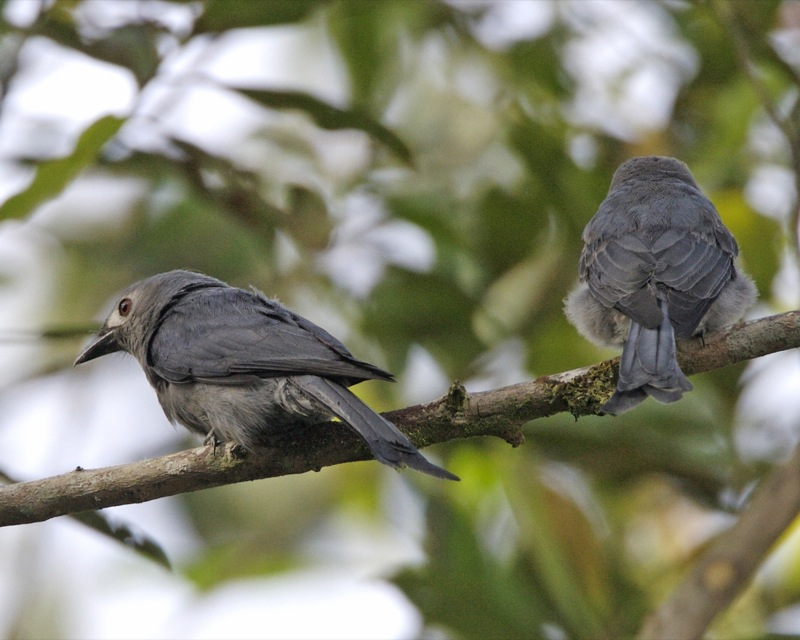 Ashy Drongo Dicrurus leucophaeus ssp Dicrurus leucophaeus stigmatops Kinabalu Park, Sabah, East Malaysia 6th. June 2009 Distribution: 690V7277.jpg